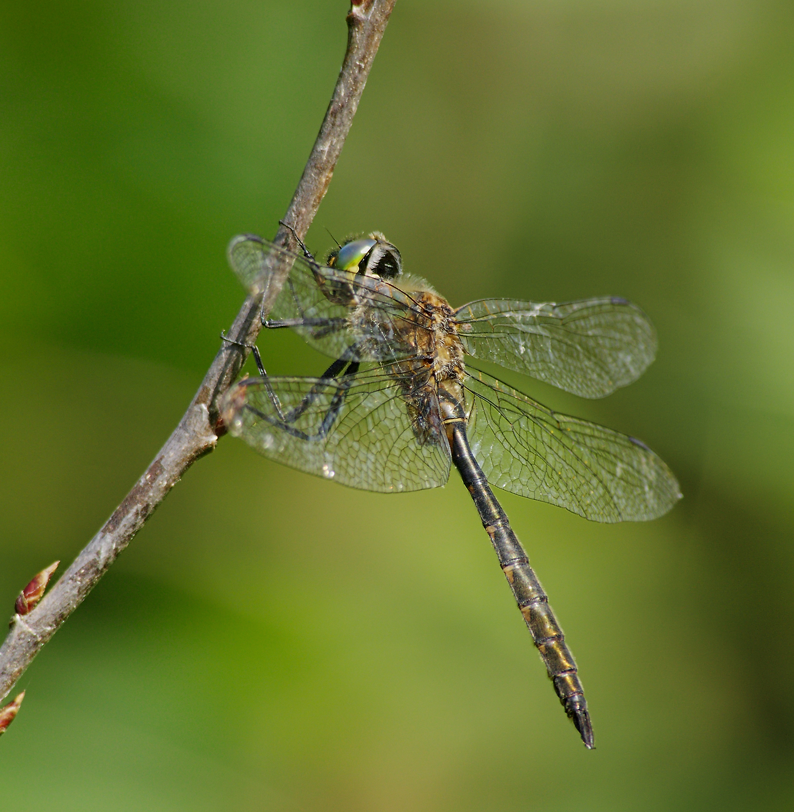 Yellow-spotted emerald - Somatochlora flavomaculata, male. Taken by the Godendorfer See in Godendorf, Mecklenburg-Western Pomerania, Germany.